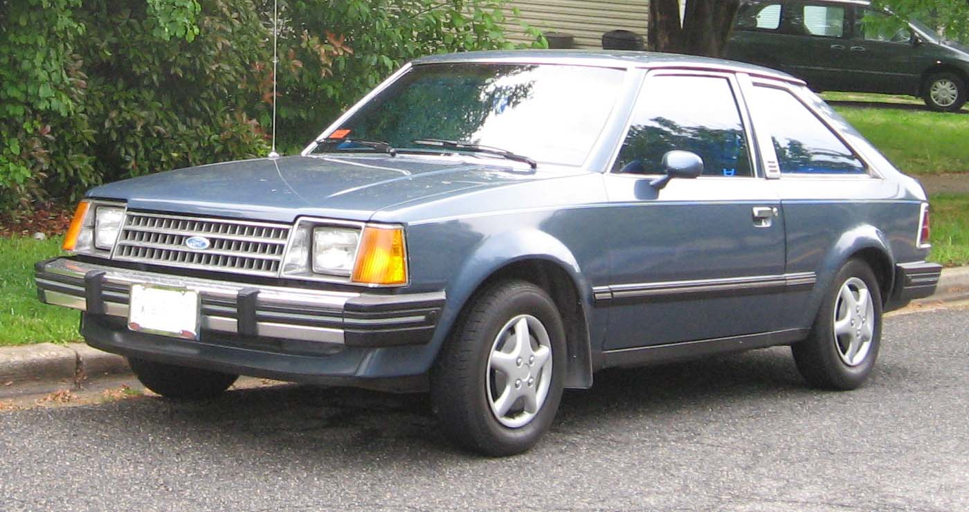 1983-1985 Ford Escort photographed in USA.